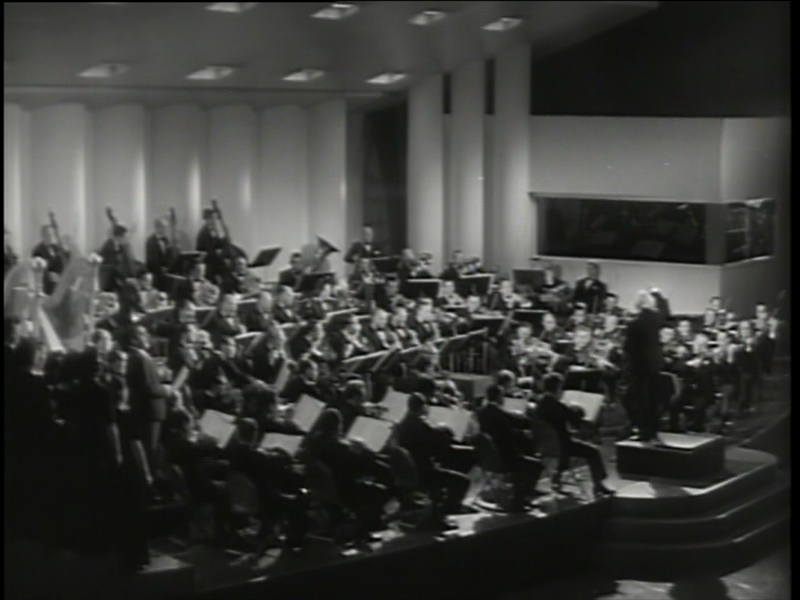 NBC Symphony Orchestra from "Hymn of the Nations". And playing the "Inno delle nazioni"